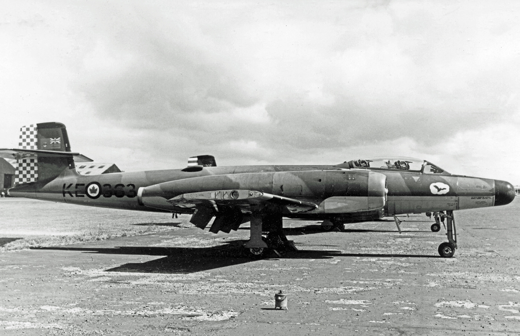 Avro Canada CF-100 Canuck 4B of 440 Squadron Royal Canadian Air Force at Prestwick Airport in 1960